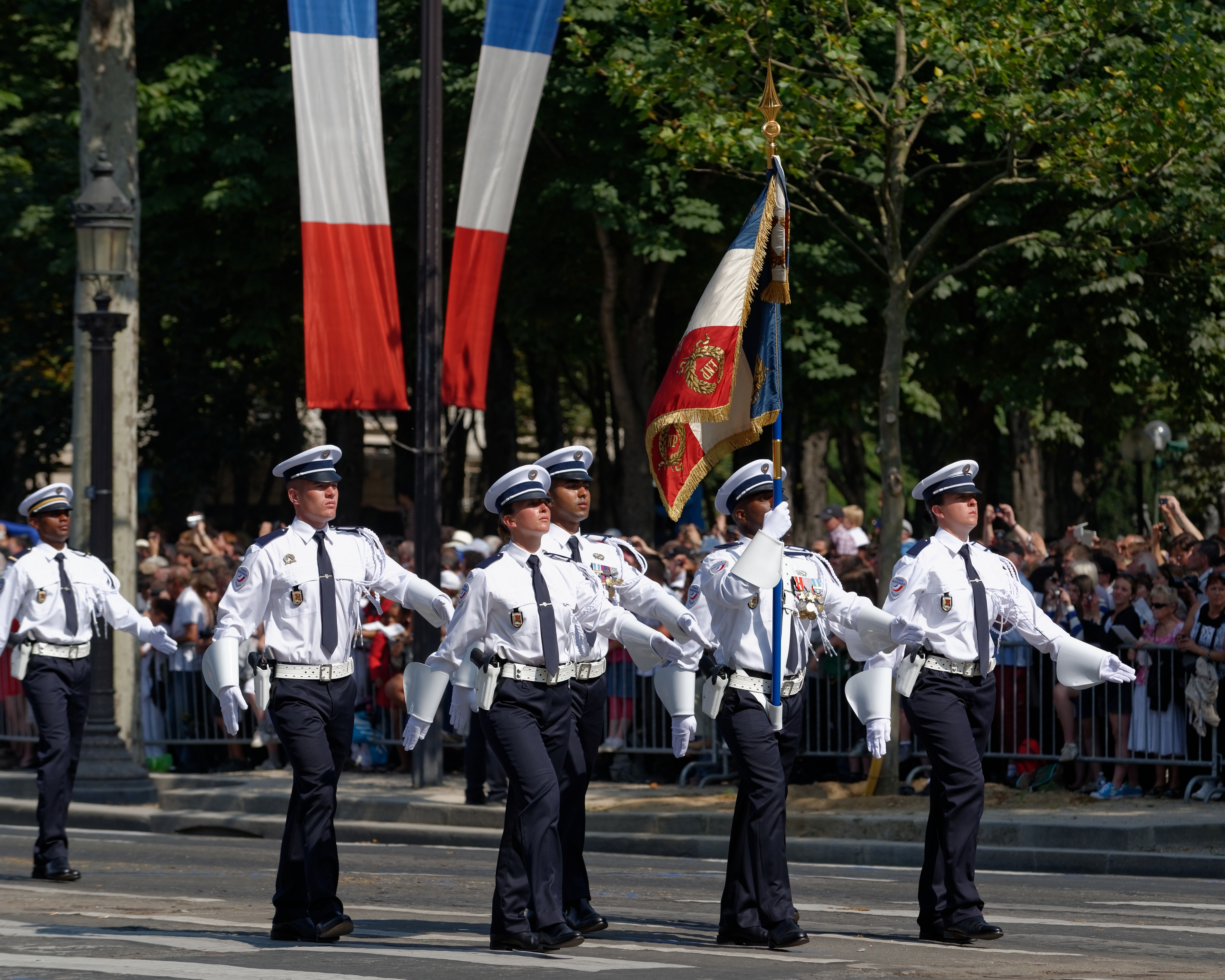 Colour guard of the Police College of Rouen-Oissel in the Bastille Day 2013 military parade on the Champs-Élysées in Paris.